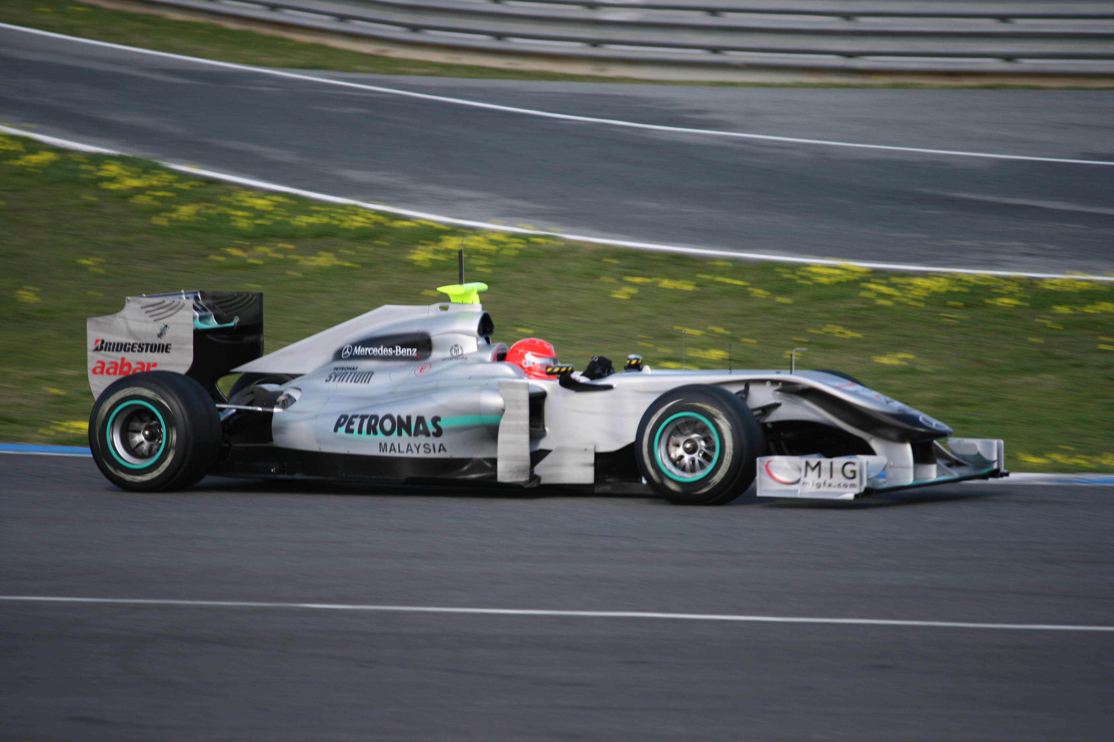 Michael Schumacher, Mercedes MGP W01, pre-season testing in Jerez 2010